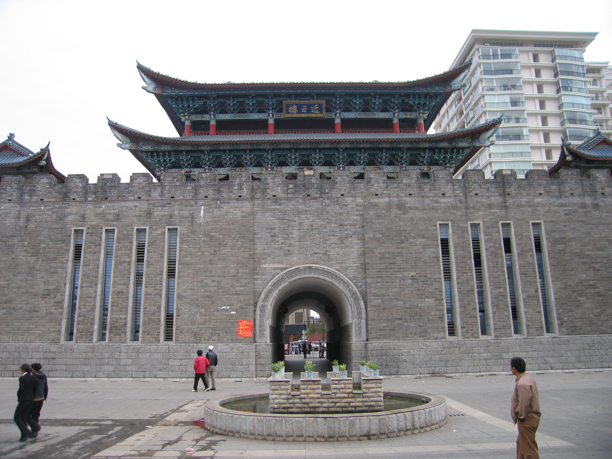 A street in Kunming between the east and west pagodas.